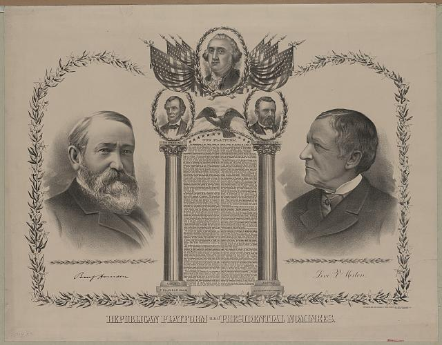 Print of presidential candidate Benjamin Harrison and vice presidential candidate Levi P. Morton with bust portraits of Abraham Lincoln, Ulysses S. Grant and George Washington.